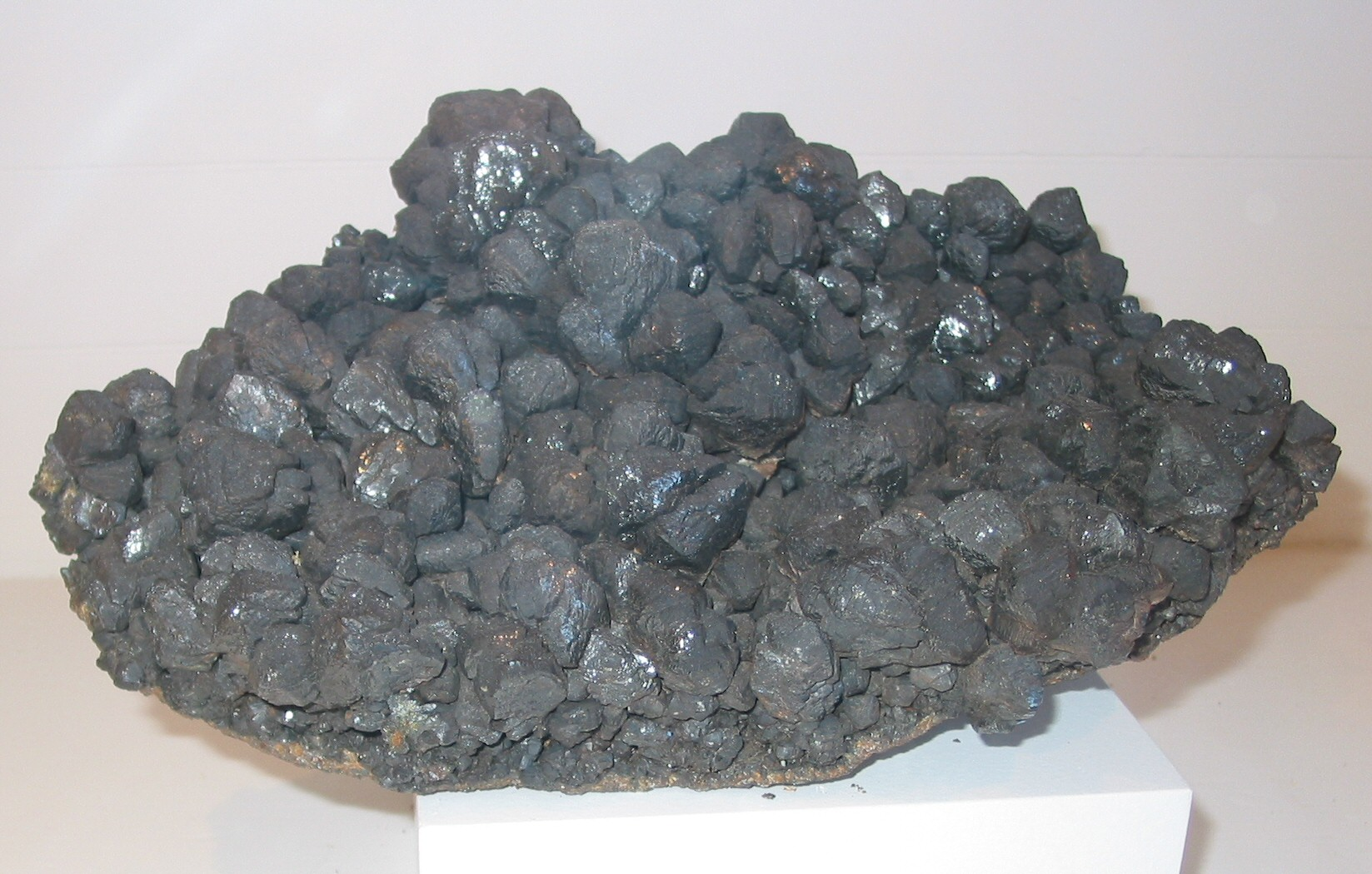 Descloizite, group of large crystals from Uitsab, 20 miles west of Grootfontein, Namibia. Exposed in the Harvard Museum of Natural History